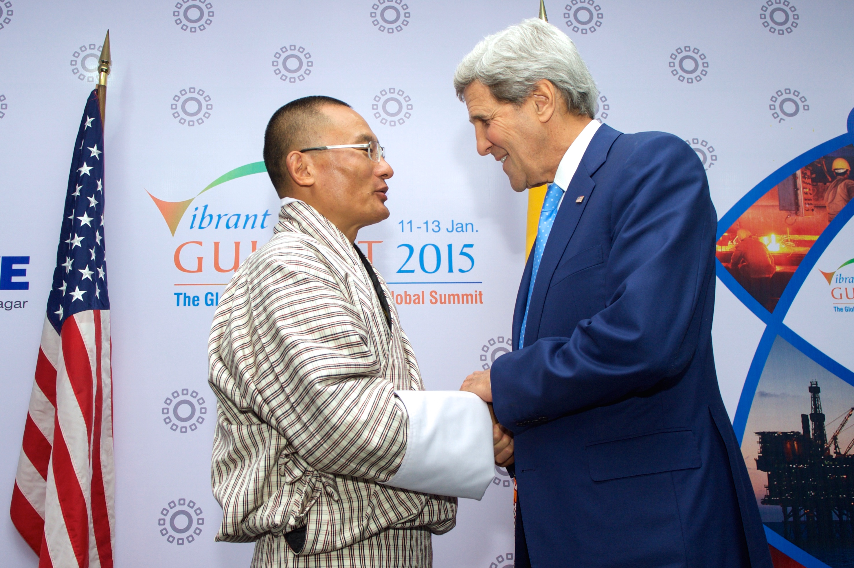 U.S. Secretary of State John Kerry shakes hands with Bhutanese Prime Minister Ushering Tobgay before a bilateral meeting after both addressed the opening plenary session of the 7th Vibrant Gujarat Summit in Gandhinagar, India, on January 11, 2014. [State Department photo/ Public Domain]